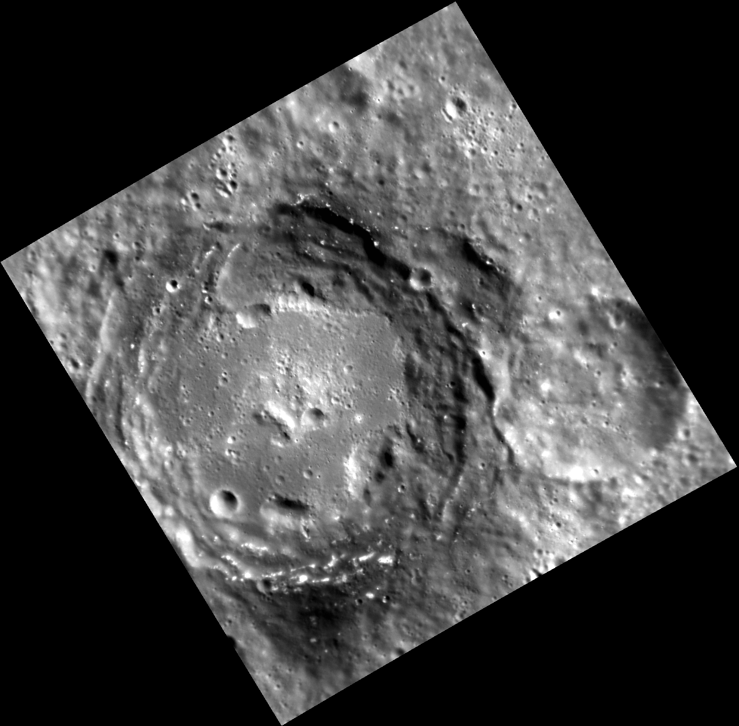 Date acquired: December 01, 2011 Image Mission Elapsed Time (MET): 231267850 Image ID: 1082997 Instrument: Narrow Angle Camera (NAC) of the Mercury Dual Imaging System (MDIS) Center Latitude: -45.06° Center Longitude: 135.3° E Resolution: 102 meters/pixel Scale: Sher-Gil crater is about 76 km (47 mi.) in diameter Incidence Angle: 59.6° Emission Angle: 15.9° Phase Angle: 65.0° Of Interest: Impact craters serve as probes into a planet's subsurface, excavating and exposing material from depth that would be otherwise unobservable. Thus the study of impact crater deposits can help to elucidate the geological history of the target region. In this image, the crater Sher-Gil has exposed low-reflectance material, particularly in its eastern wall and at two concentrated points on the north and south rim. Younger, bright features called hollows dot the dark parts of the crater. This image was acquired as part of MDIS's high-resolution stereo base map. The stereo base map is used in combination with the surface morphology base map to create high-resolution stereo views of Mercury's surface, with an average resolution of 250 meters/pixel (0.16 miles/pixel or 820 feet/pixel) or better. During MESSENGER's one-year mission, the surface morphology base map is acquired during the first 176 days, and the second 176 days are used to acquire the complementary stereo base map, which includes the image here.